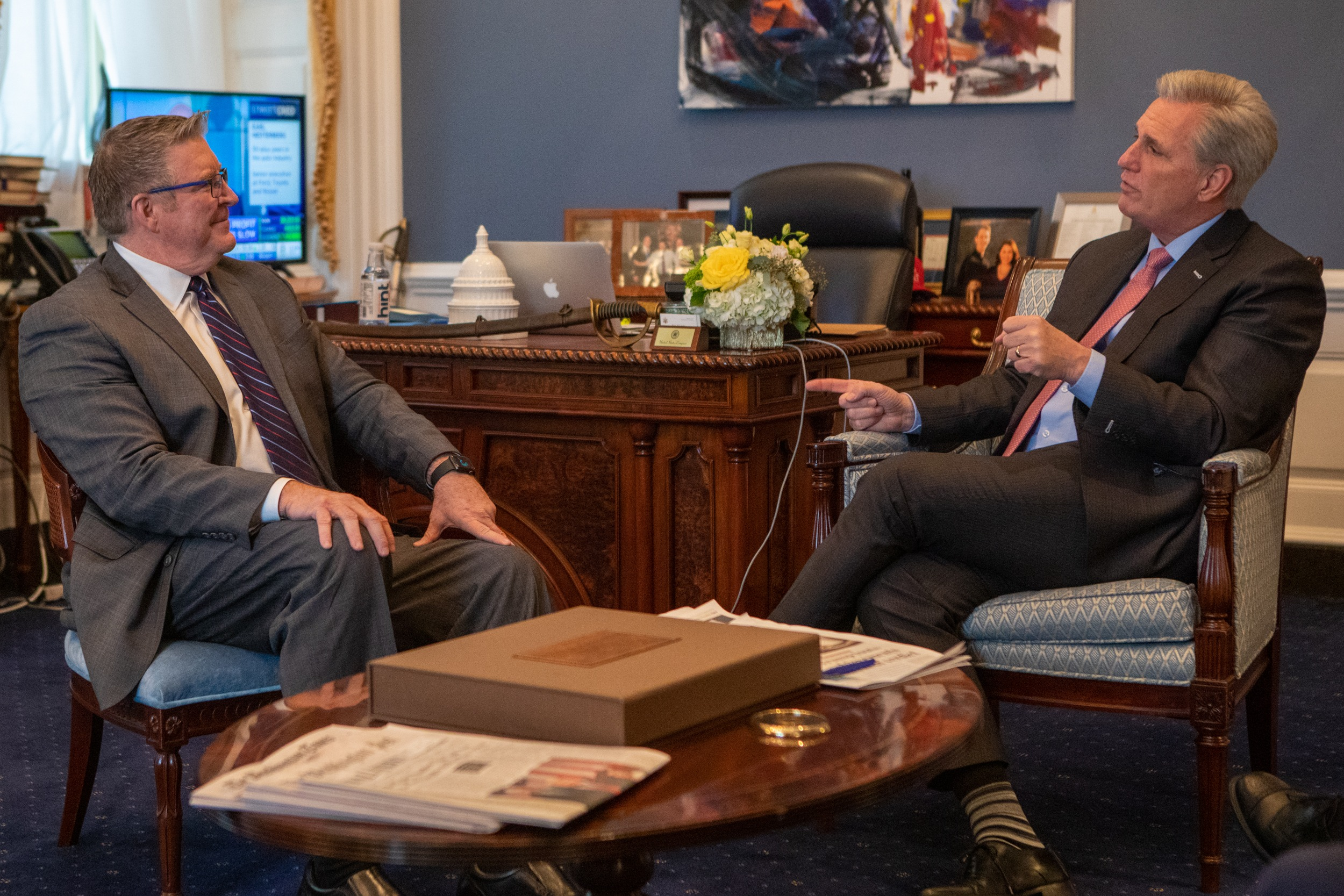 Children are a blessing from God, and I am grateful for @FocusFamily’s efforts to defend the unborn and ensure children are raised to their full potential. I really enjoyed catching up with Jim Daly last week.